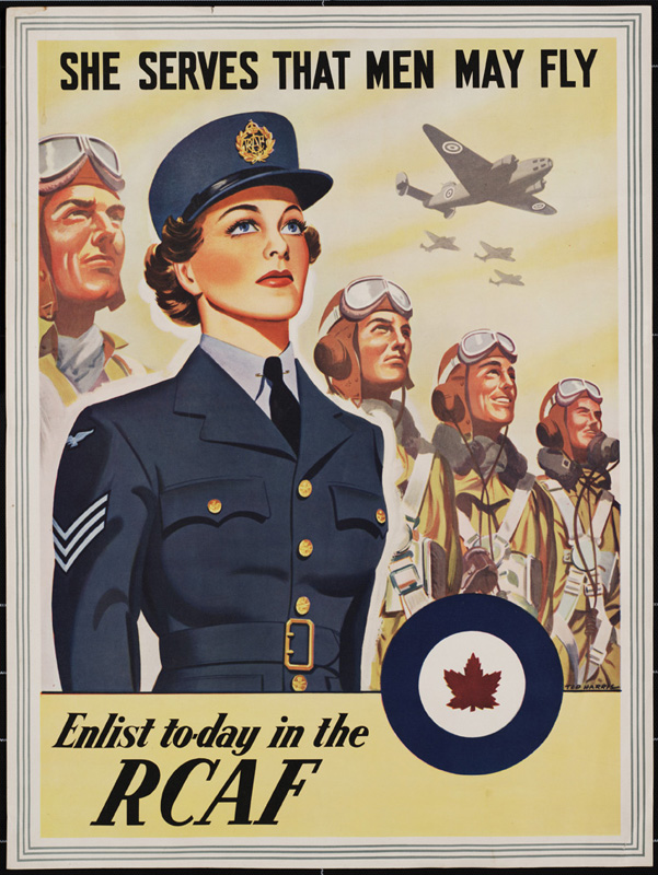 Royal Canadia Air Force Women's Division (WD) recruiting poster. Title: She serves that men may fly : Enlist today in the R.C.A.F.